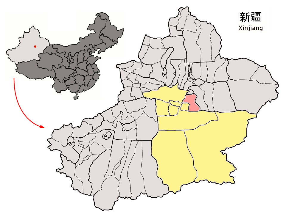 Location of Hoxud County (pink) and Bayin'gholin Prefecture (yellow) within Xinjiang autonomous region of China Map drawn in september 2007 using various sources, mainly : Xinjiang Uygur autonomous region administrative regions GIS data: 1:1M, County level, 1990 Xinjiang Counties map from